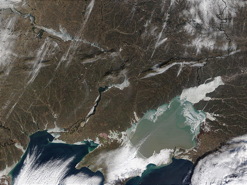 The Sea of Azov and southern Ukraine in early winter. Caption: On December 10, 2002, winter seemed to have already arrived in southern Ukraine (left) and Russia (right). The landscape is a dull brown, and dotted with small frozen lakes. The Don River flowing into the Sea of Azov from upper right is beginning to freeze in sections, and the Sea itself is developing a covering of ice. The Sea as a gray-green cast, while the Black Sea to the south appears dark, clear blue.